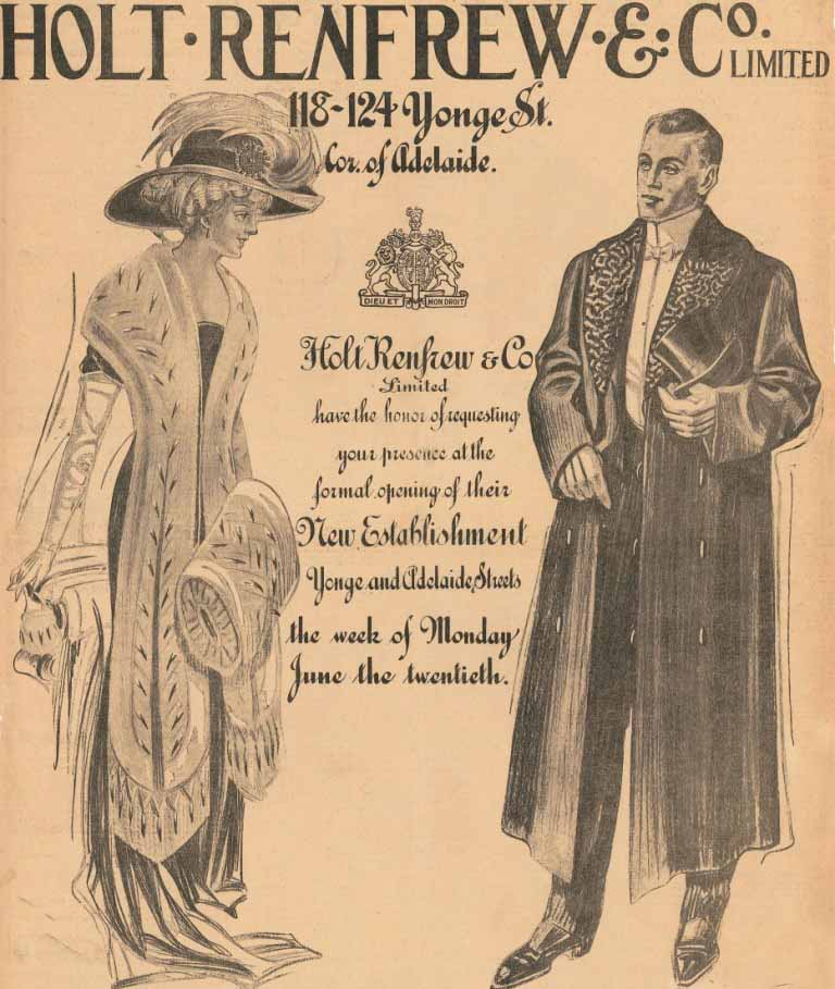 Holt Renfrew newspaper advertisement, annoucing the opening of a new Toronto store, The Globe, June 20, 1910.